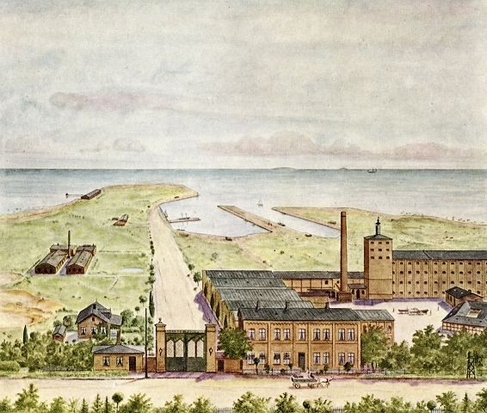 Tuborg Breweries with the small harbour in the background in Hellerup, Copenhagen, Denmark